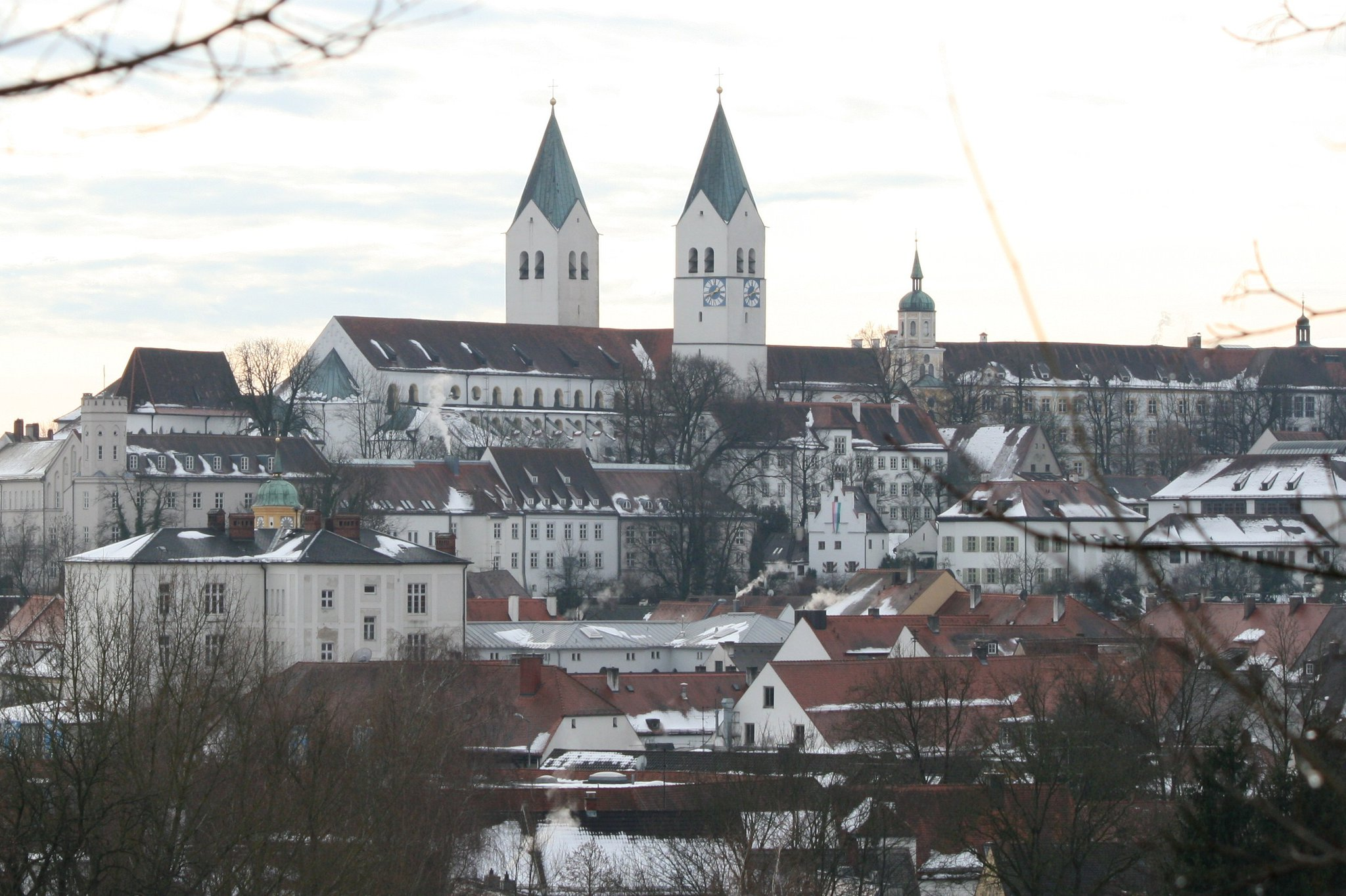 Domberg (Cathedral hill) in Freising, Bavaria - in winter